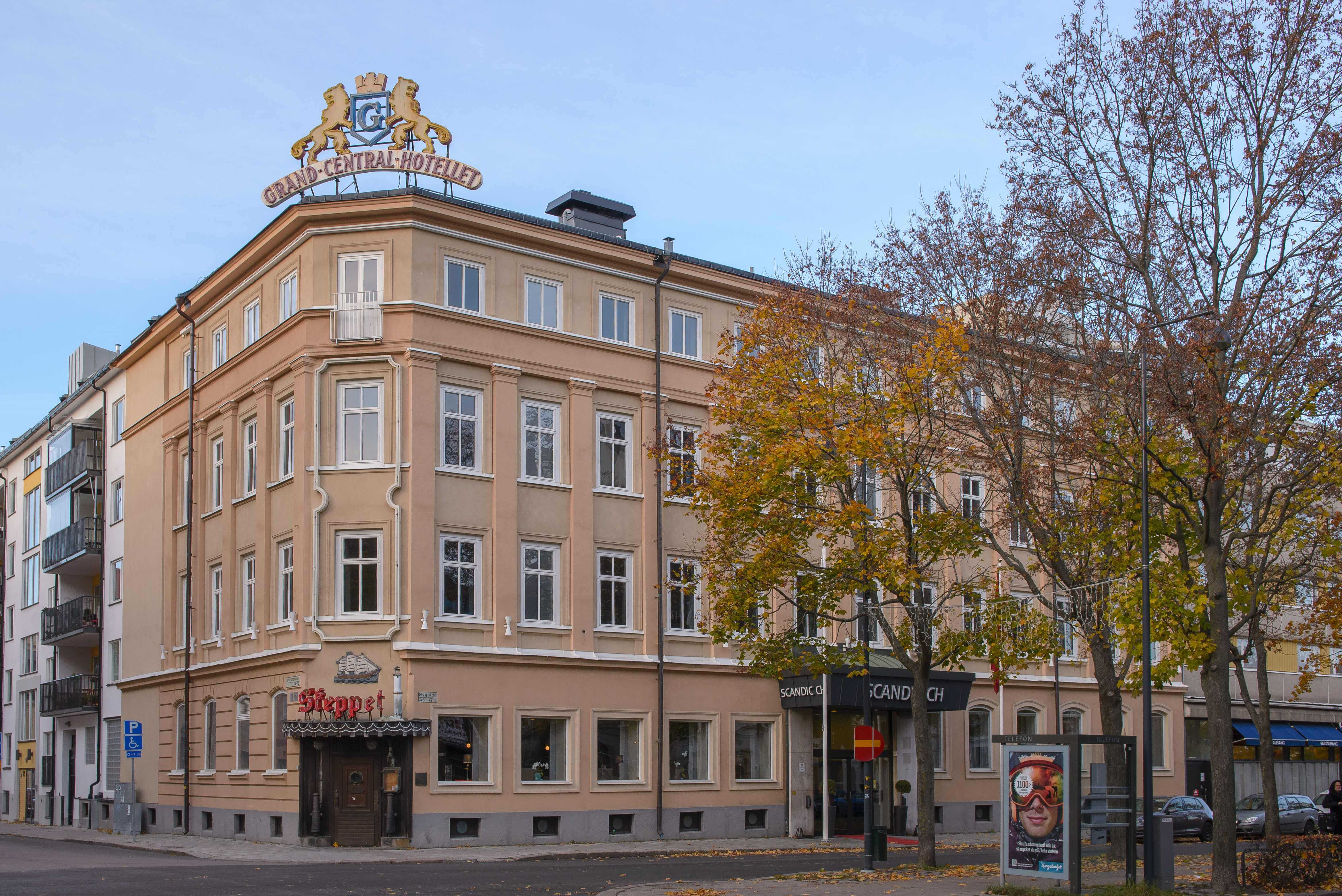 Centralhotellet (Central hotel), Gävle.